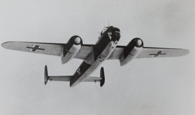 PictionID:38236019 - Catalog:Array - Title:Array - Filename:15_002317.TIF - -------Image from the Charles Daniels Photo Collection.----Album: German Aircraft.-----------PLEASE TAG these images with any information you know about them so that we can permanently store this data with the original image file in our Digital Asset Management System.-----------------SOURCE INSTITUTION: San Diego Air and Space Museum Archive